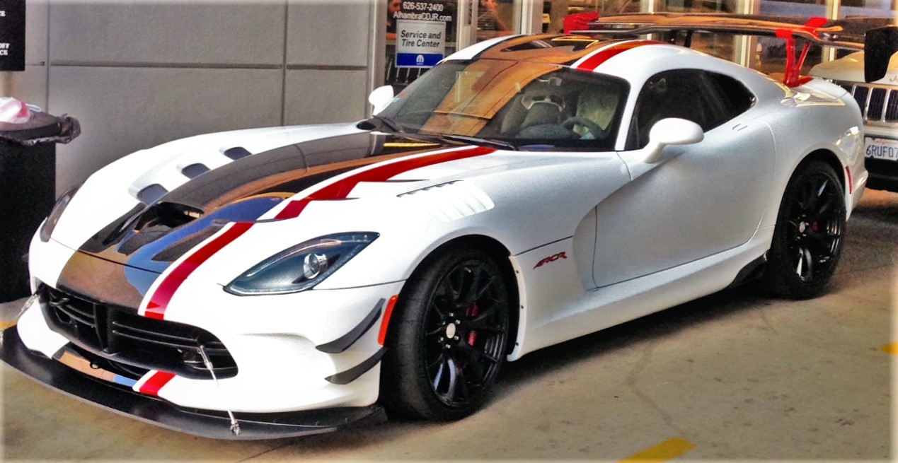 Had an unexpected face-to-face encounter with a Viper today while on my way home from work.